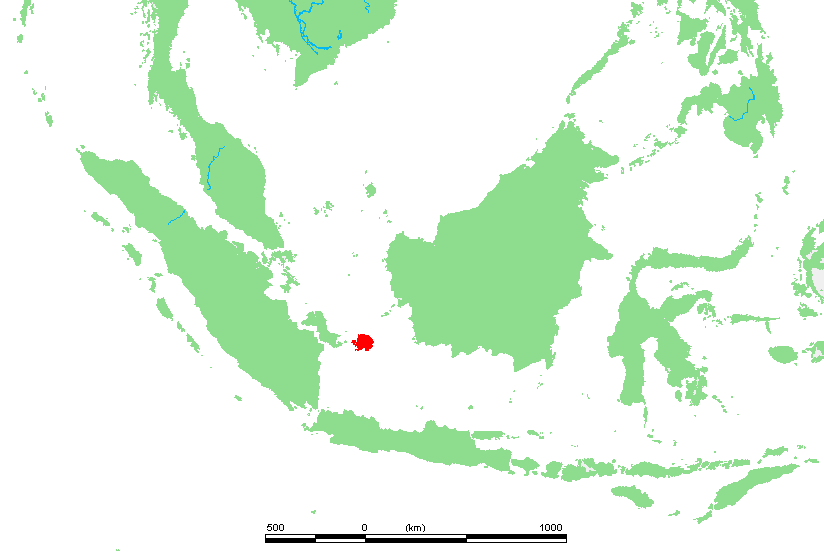 Location of Belitung, Indonesia